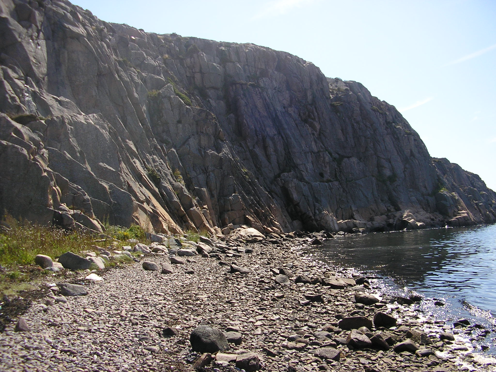 Urhultsberget, Bohuslän, Sweden.